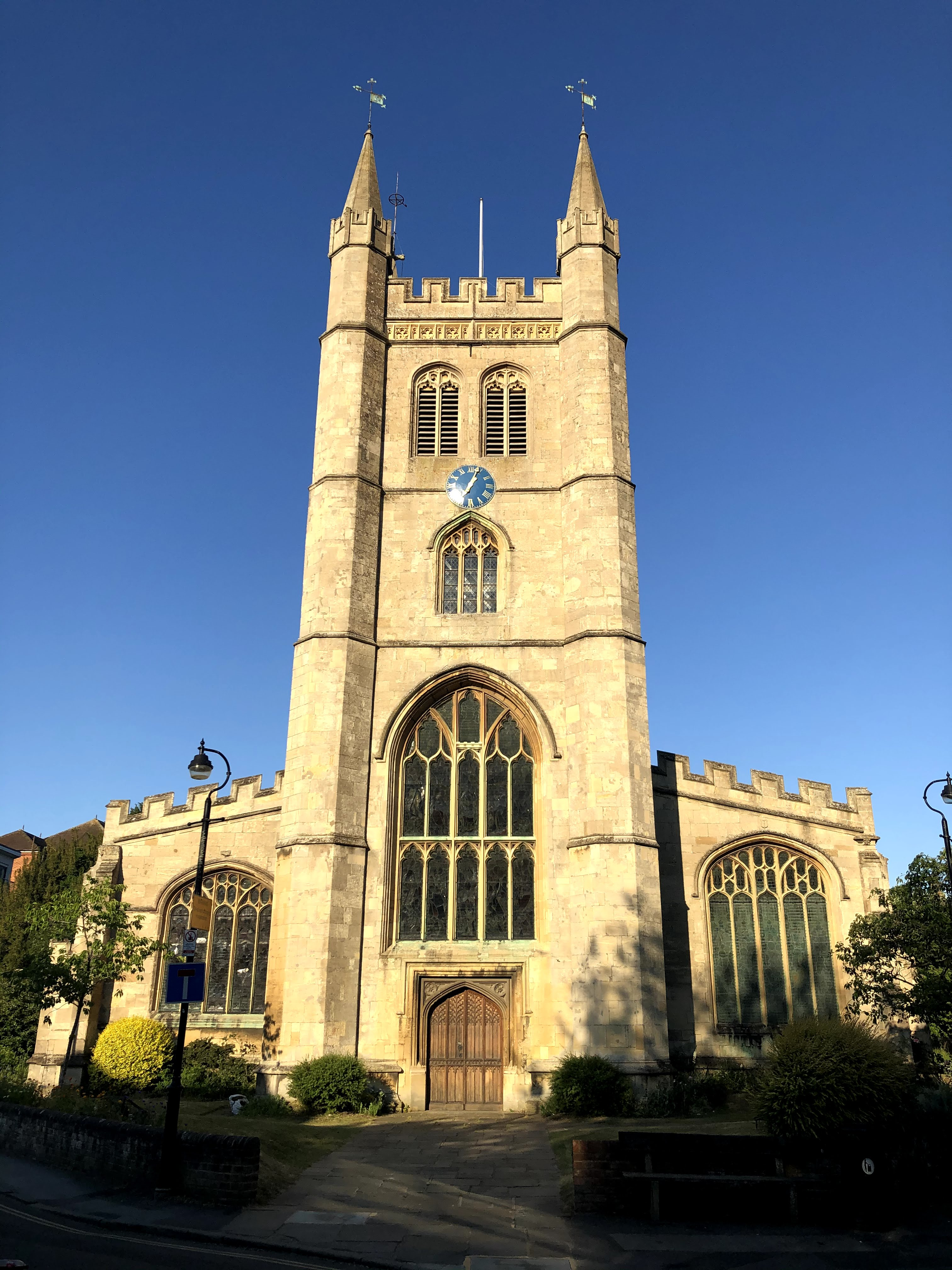 St Nicolas Church Newbury UK Front View